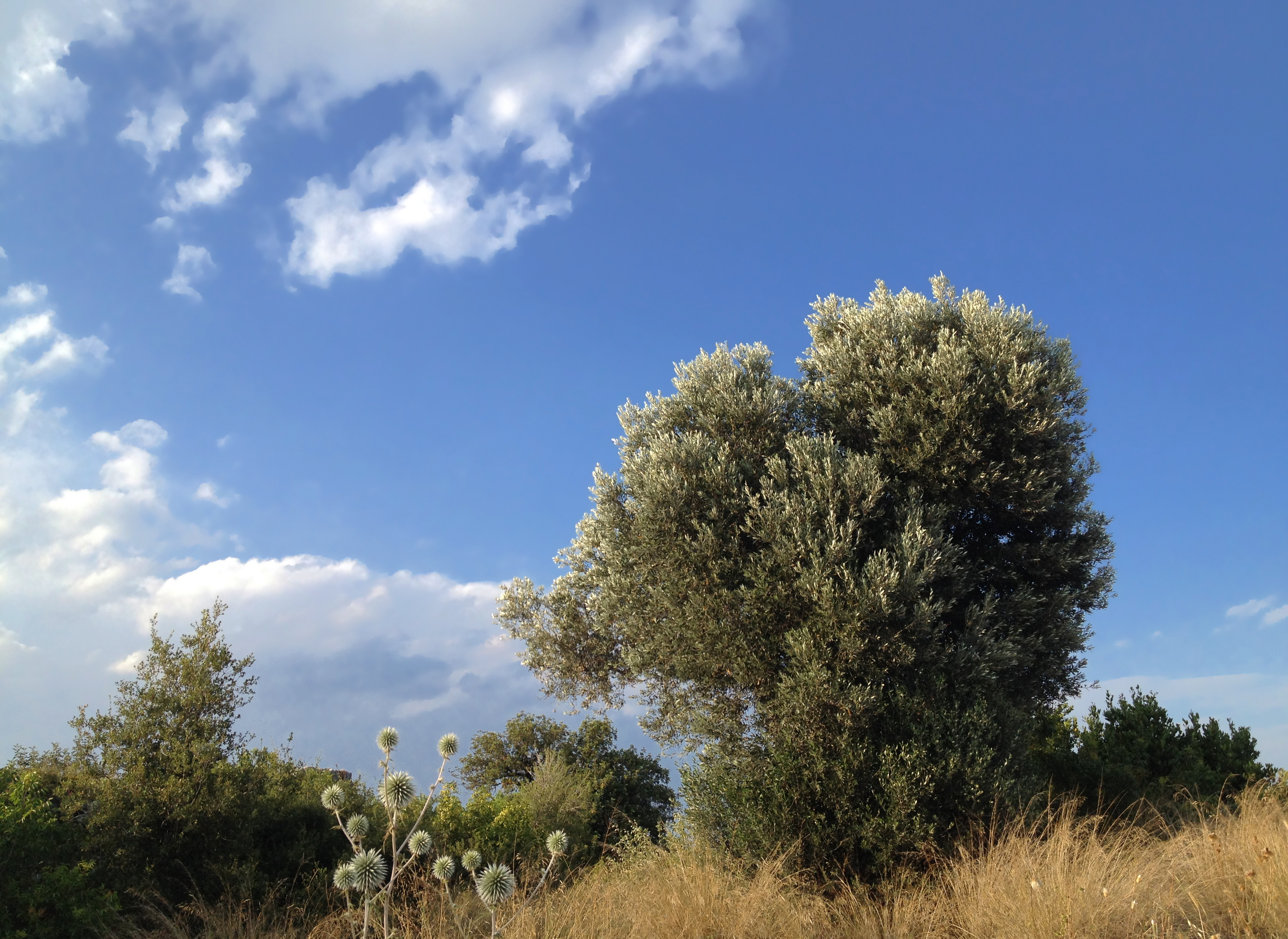 A wild olive tree. Kanytelleis, Erdemli, Mersin - Turkey.